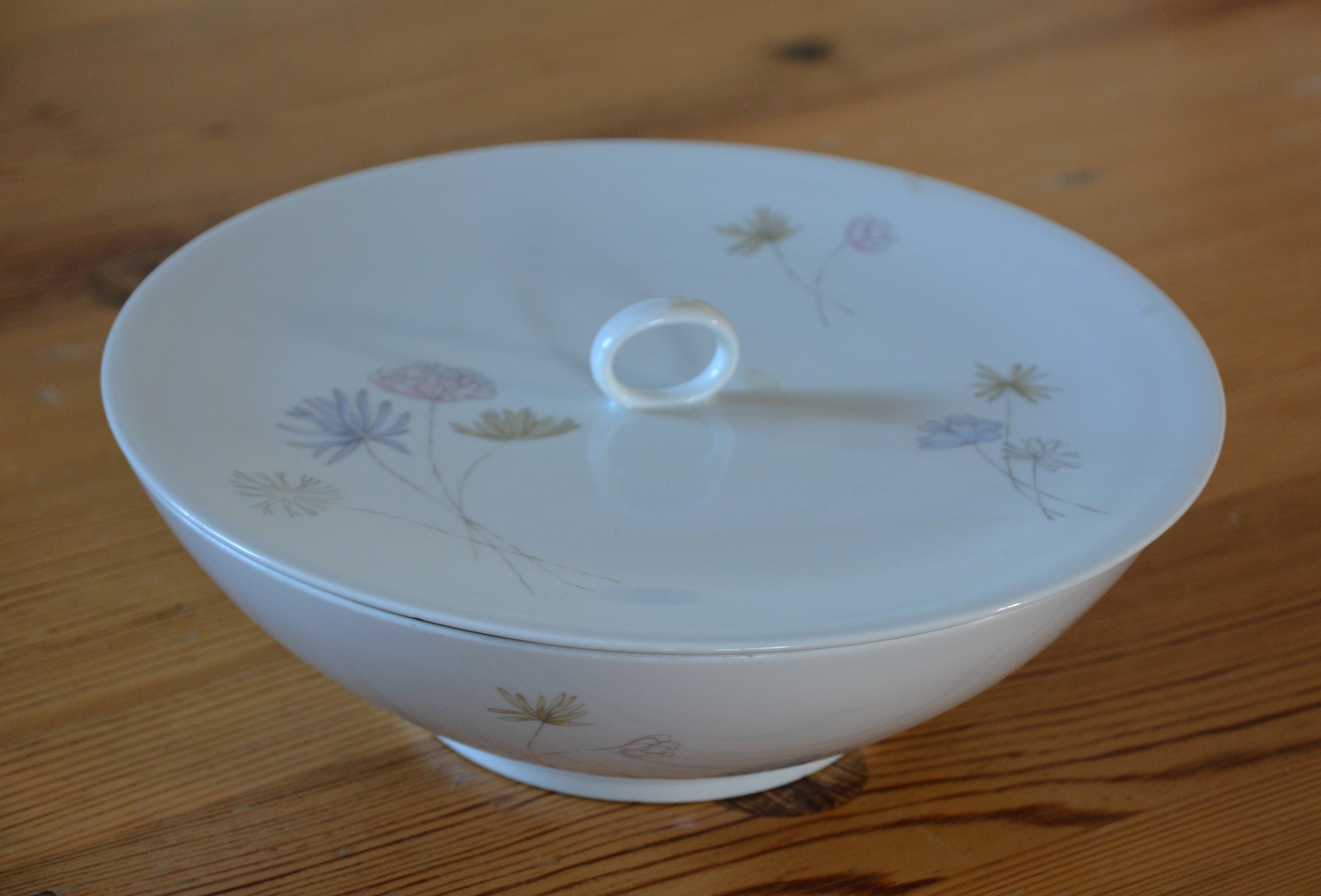 Deep dish, German tableware manufacturer Johann Havelind Bavaria. Designer unknown.